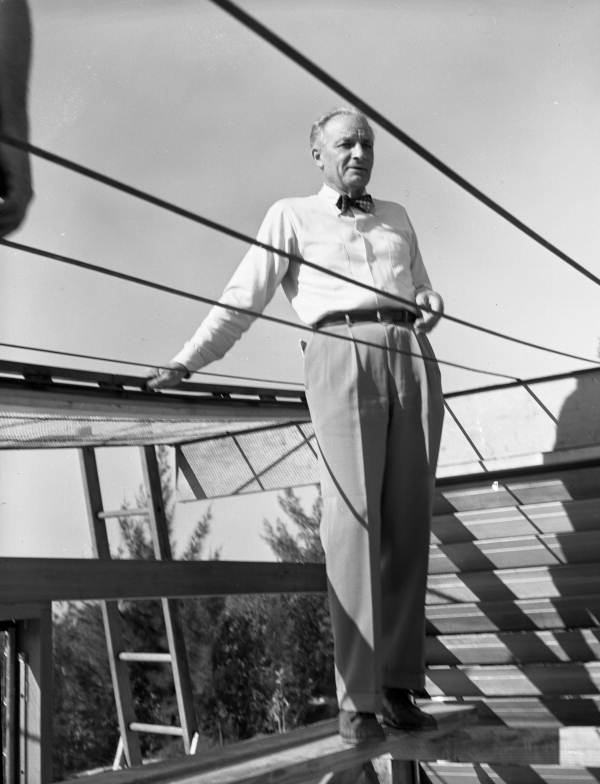 Architect Ralph Twitchell, inspecting the roof design for the Healy Guest House (Cocoon House). Photograph taken in April 1951, by Joseph Steinmetz. (Public domain. State Library & Archives of Florida).